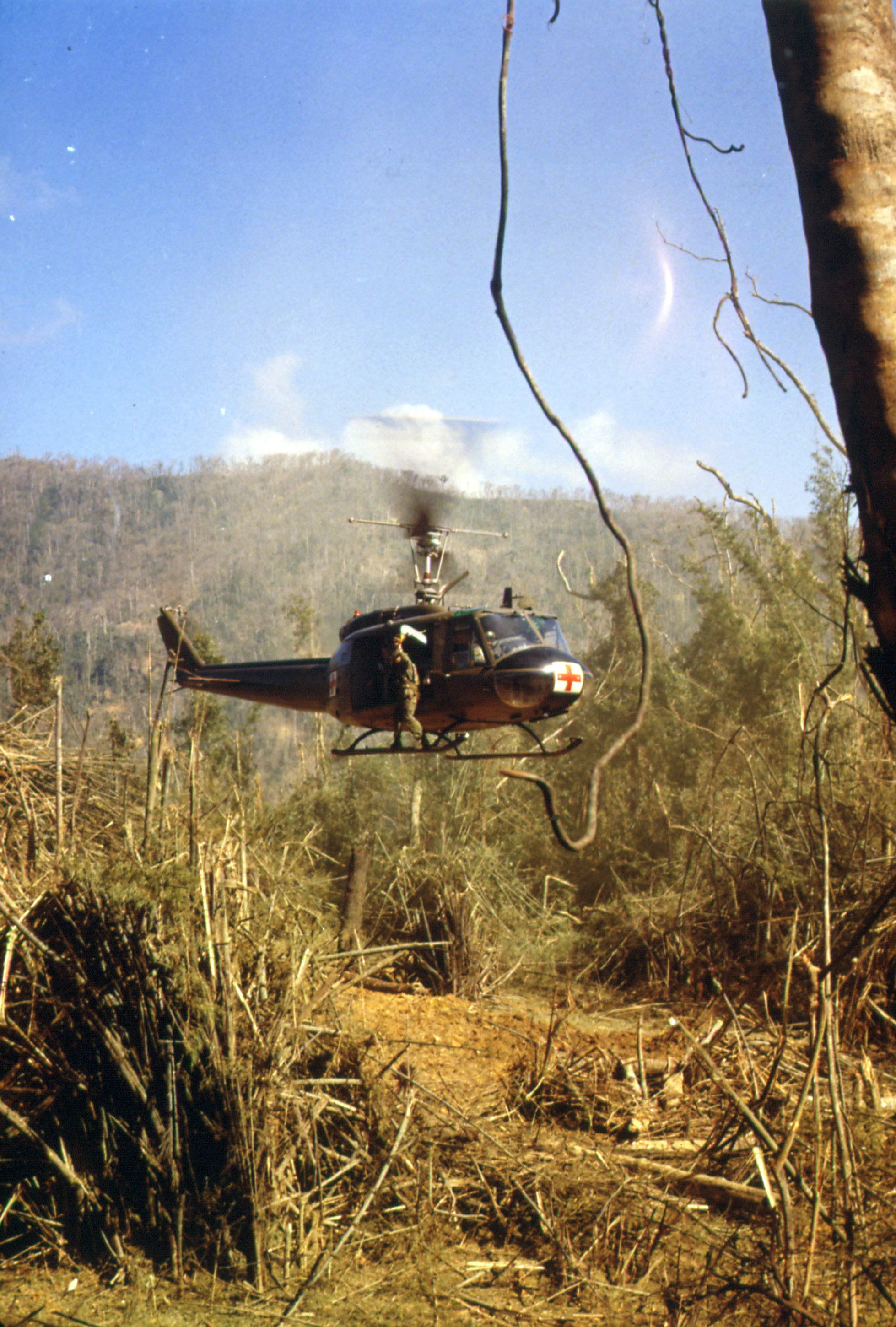 South Vietnam. A UH-1D Medevac helicopter takes off to pick up an injured member of the 101st Airborne Division, near the demilitarized zone.